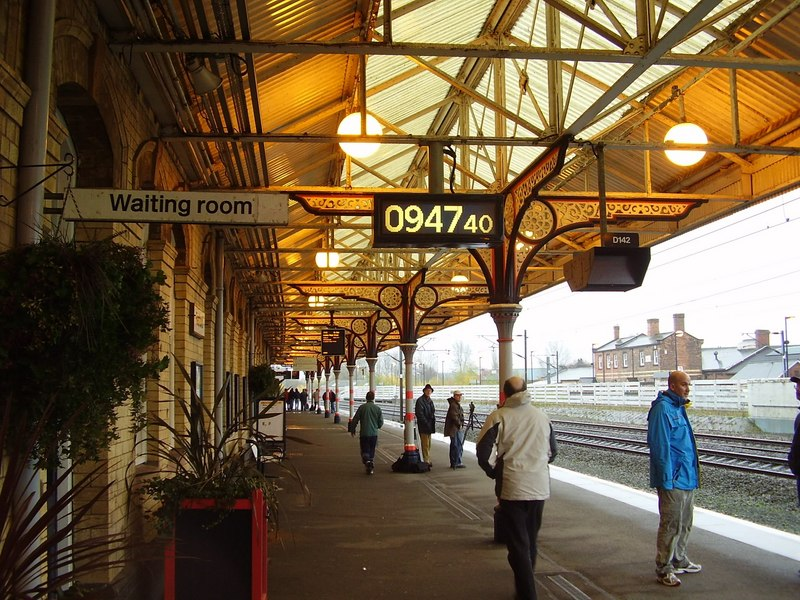 Retford Railway Station The Great Northern Railway's station on the East Coast mainline. This is actually the high level station as the Great Central Railway's Lincoln to Sheffield line passes under the ECML and is served by the low level station.